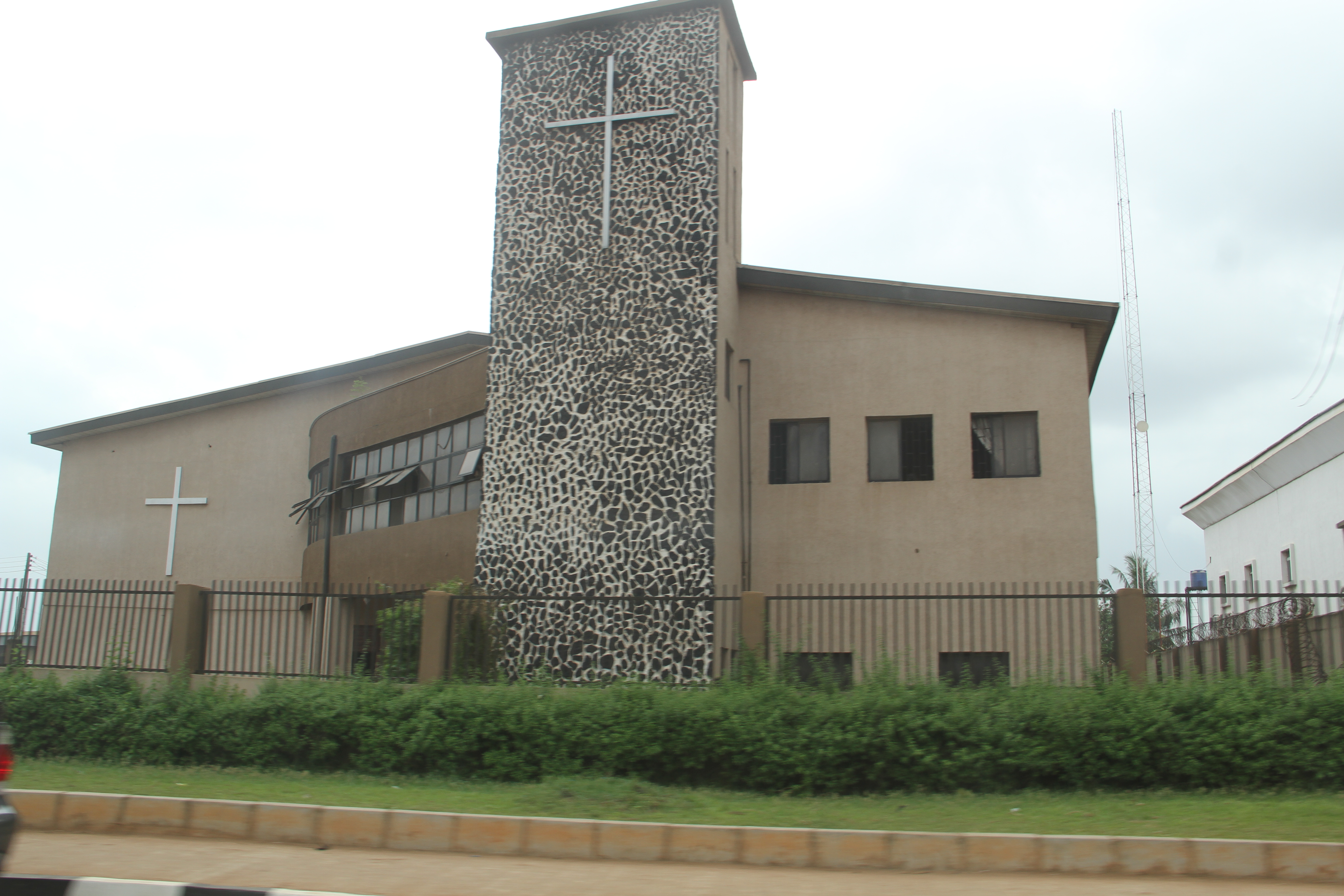 St. John's Church at Sagamu